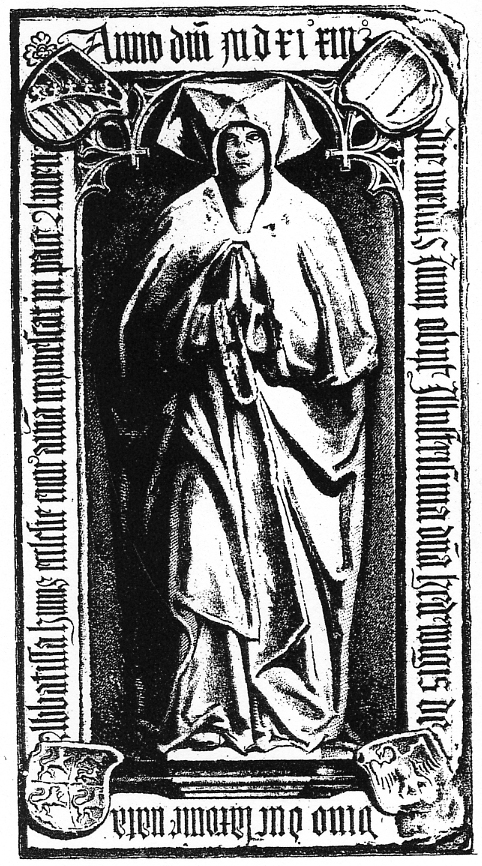 Tombstone of the abbess of Quedlinburg, Hedwig of Saxonia